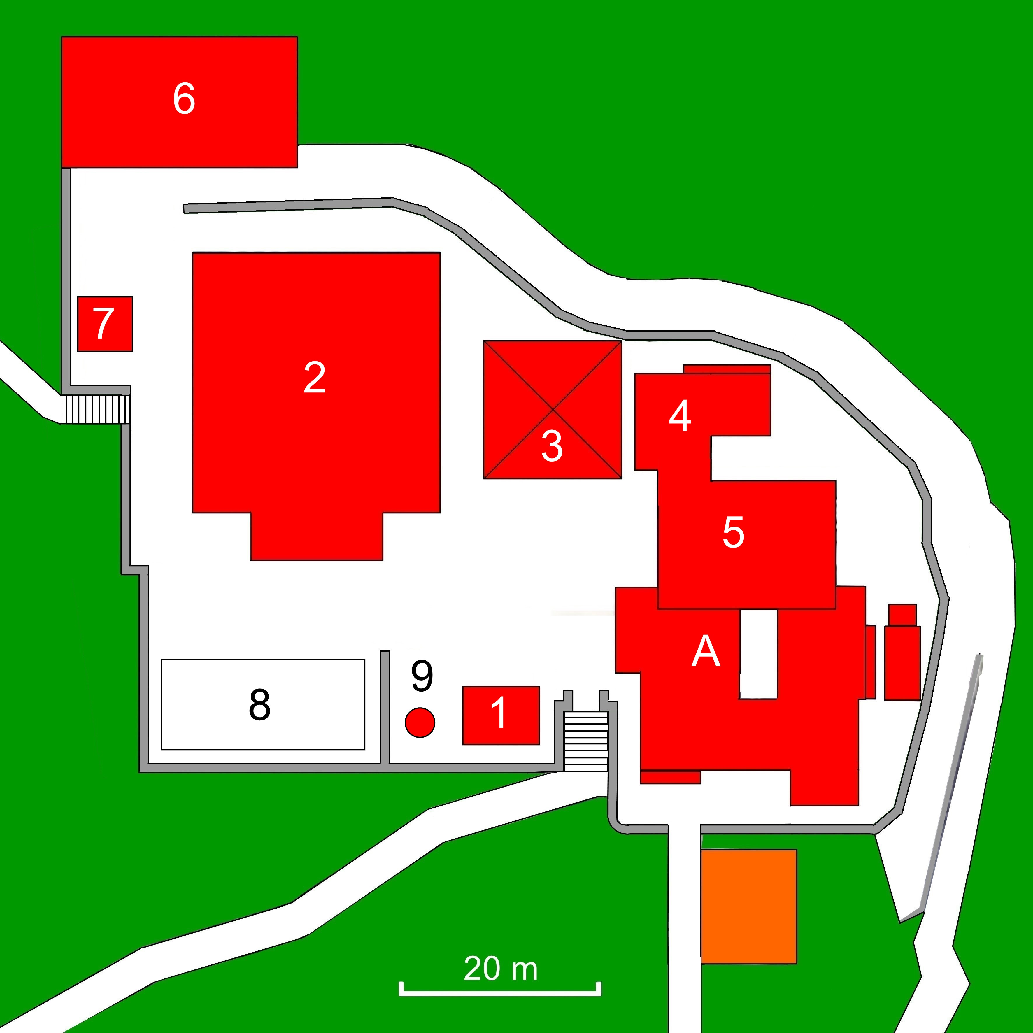 Layout of Tôritenjô-ji temple at Kôbe, Japan